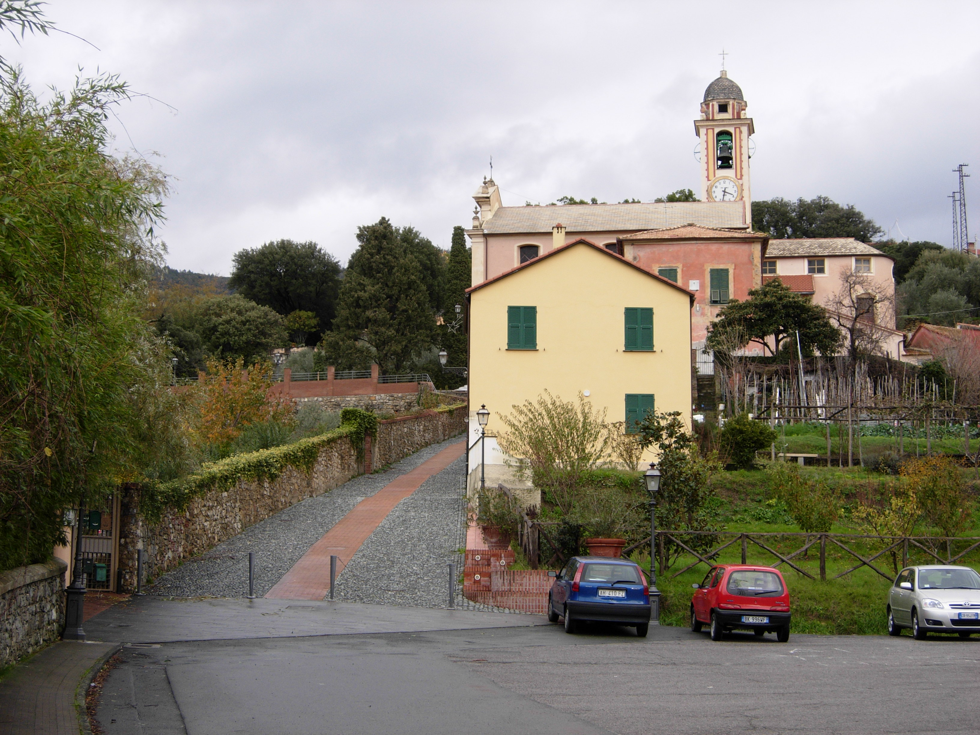 The church of Santo Stefano del Ponte in Sestri Levante as seen from the road.